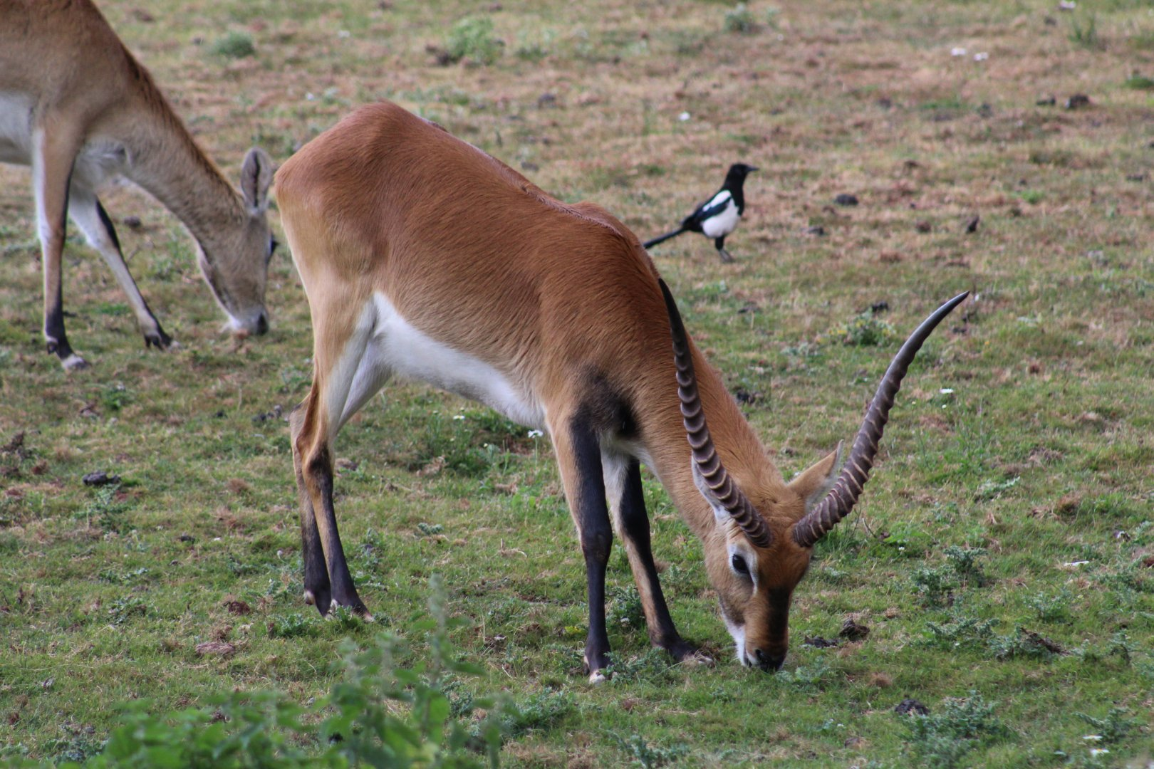 Kafue Lechwe at Paignton Zoo